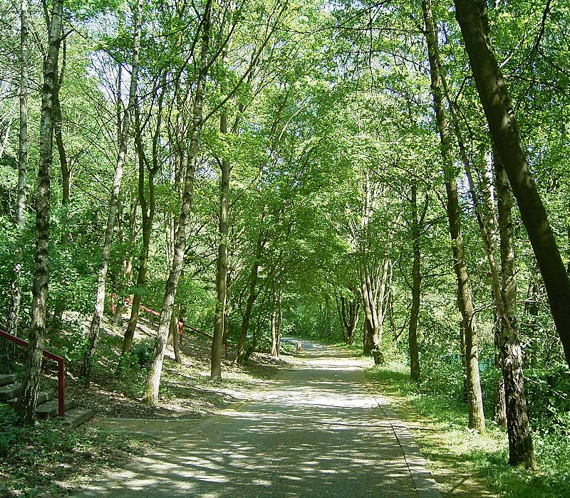 Botanical Garden of Bochum, Germany